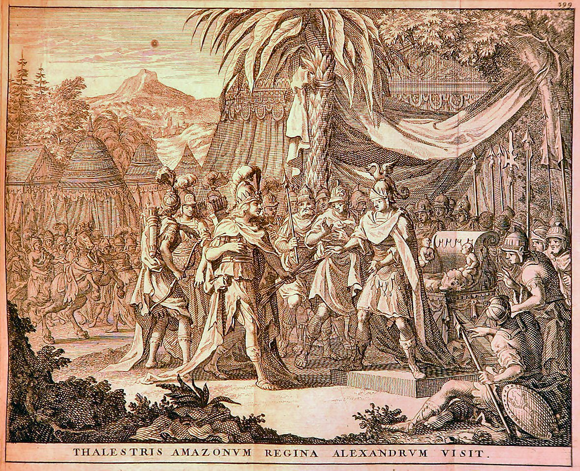 Thalestris, Queen of the Amazons, visits Alexander